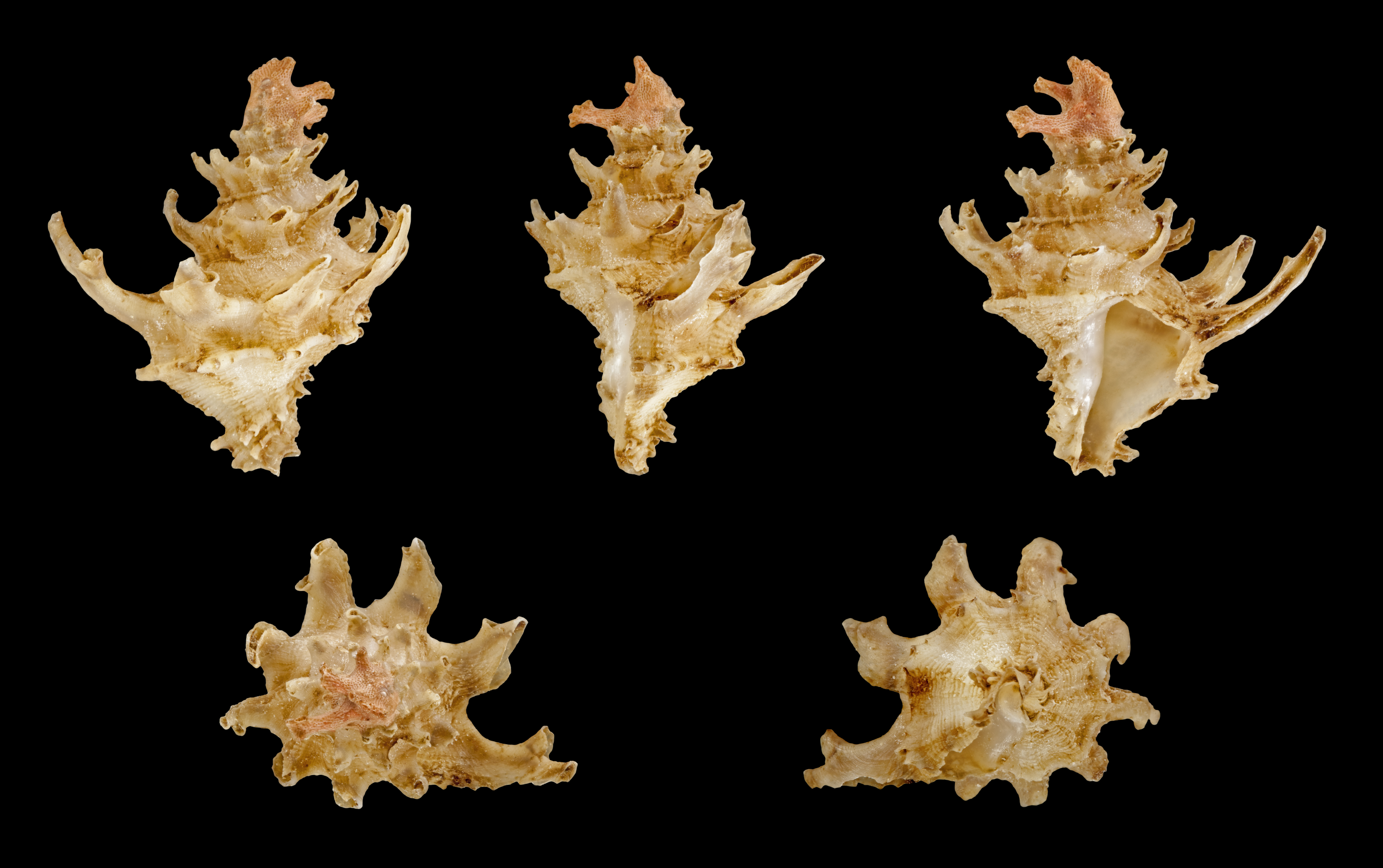 Babelomurex gemmatus (Shikama, 1966), Mactan Latiaxis; Length 1.4 cm; Originating from Panglao Island, Bohol, Philippines; Shell of own collection, therefore not geocoded.